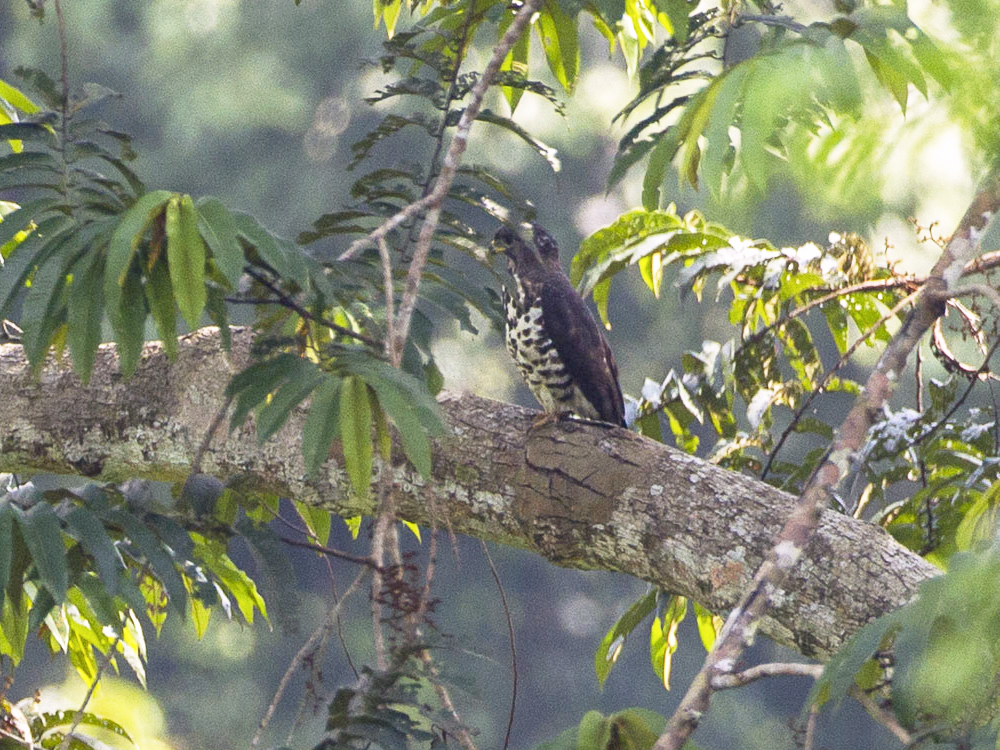 Congo Serpent Eagle Circaetus spectabilis from Kakum Canopy Walkway - Ghana 14_S4E1475